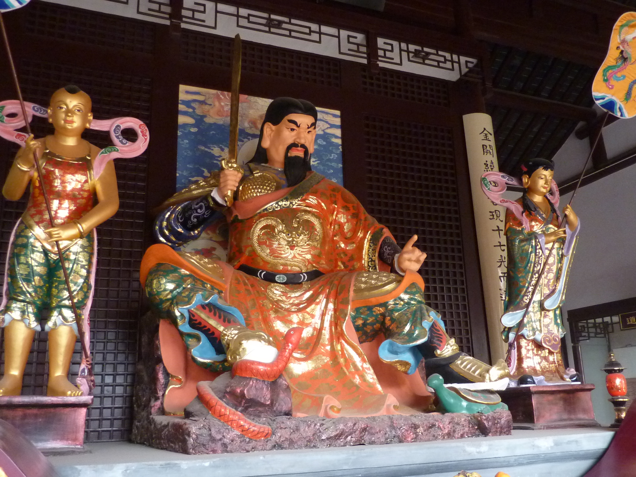 Yangzhou's Wudang Palace. The statue of Zhenwu in the main hall of the temple, the Zhenwu Hall. According to the canon, Zhenwu sits with his left foot resting on the Turtle General, and the right foot, on the Snake General